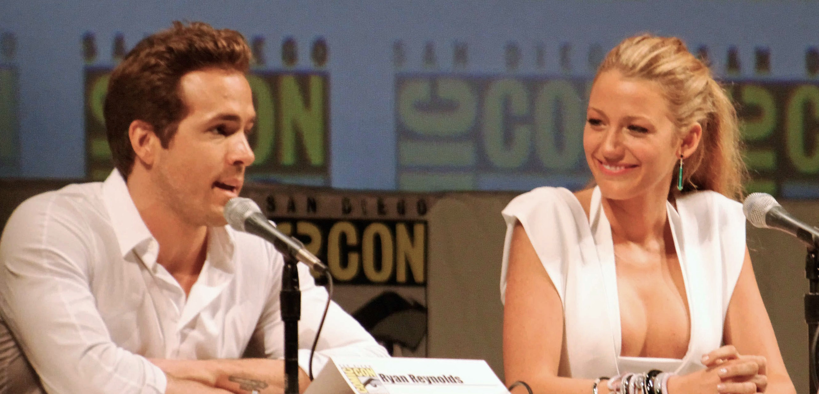 Green Lantern panel at the 2010 San Diego Comic-Con International with Ryan Reynolds, Blake Lively, Peter Sarsgaard and Mark Strong.